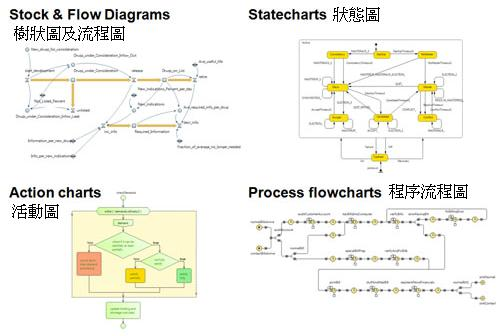 AnyLogic_Simulation_Language_CN.jpg